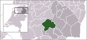 Location map of Dutch municipality in Drenthe. All images of this type by Mtcv have been released in the Public Domain by him